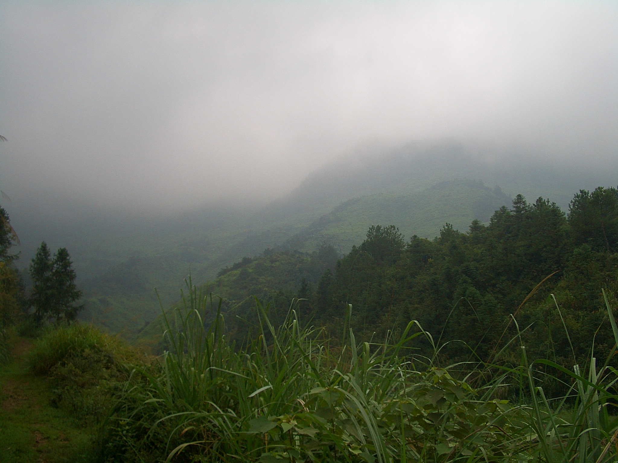 A rural landscape east of Hengshitan, Jiugongshan Town, Tongshan County, Hubei.